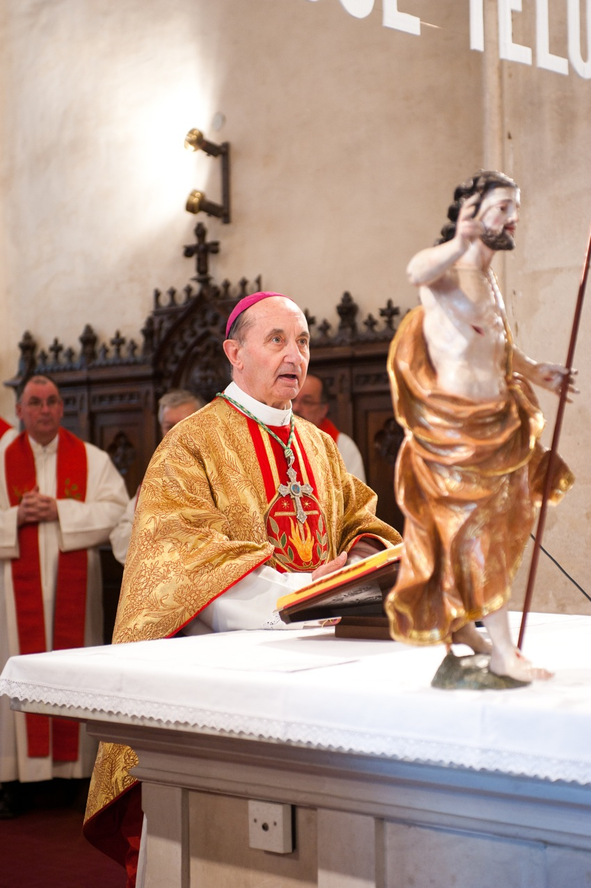 Maribor's archbishop dr. Franc Kramberger at Slovenske Konjice church